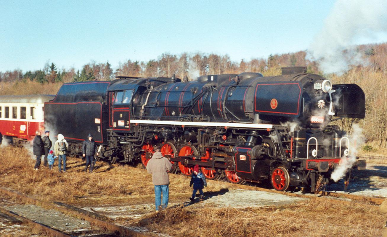 Czech steam lokomotive class 556.0